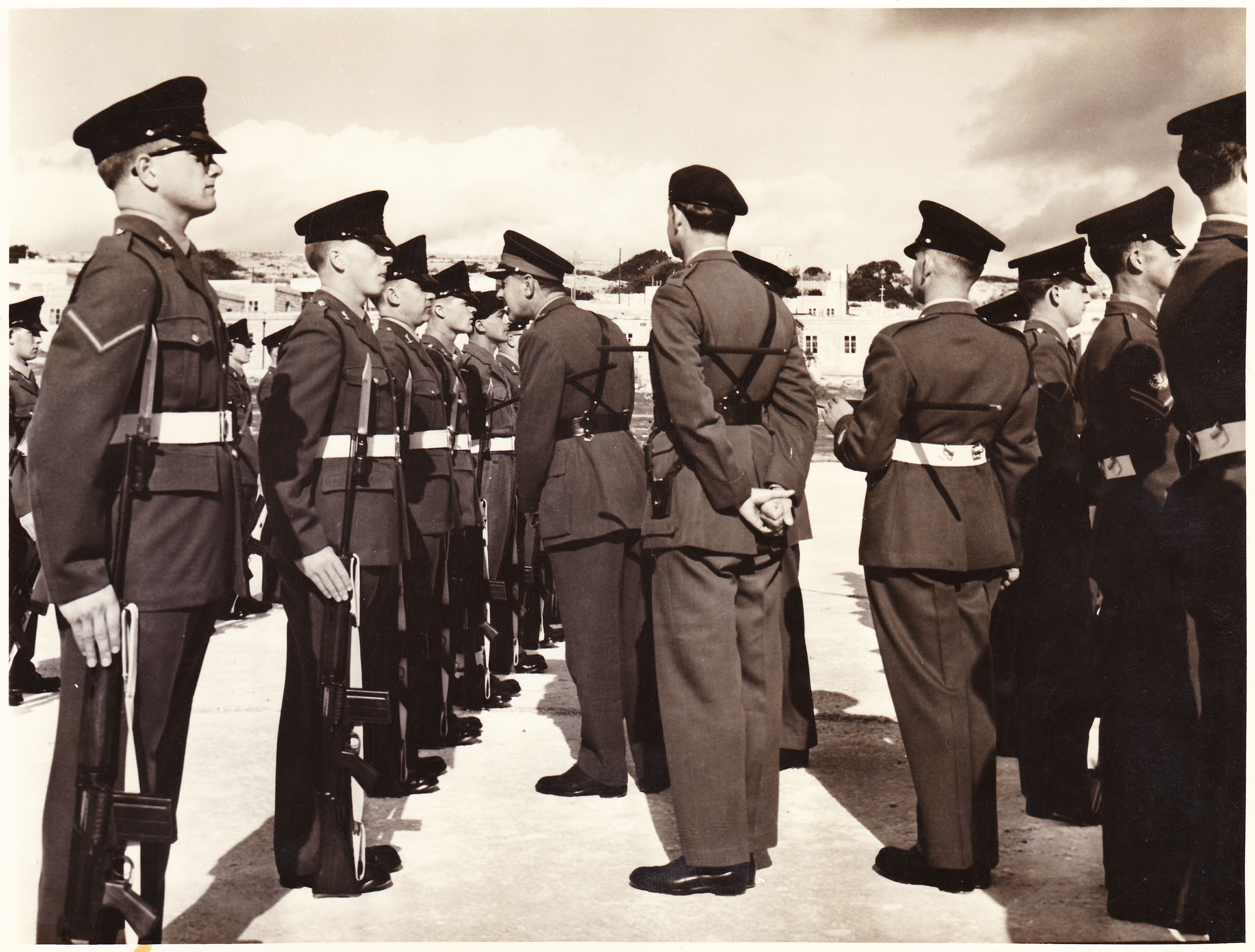 From November 1959 , 3 L.A.A. Regiment and 11 H.A.A. Regiment (Royal Malta Artillery) formed the backbone of a mobile anti-aircraft force in support of infantry in Libya.